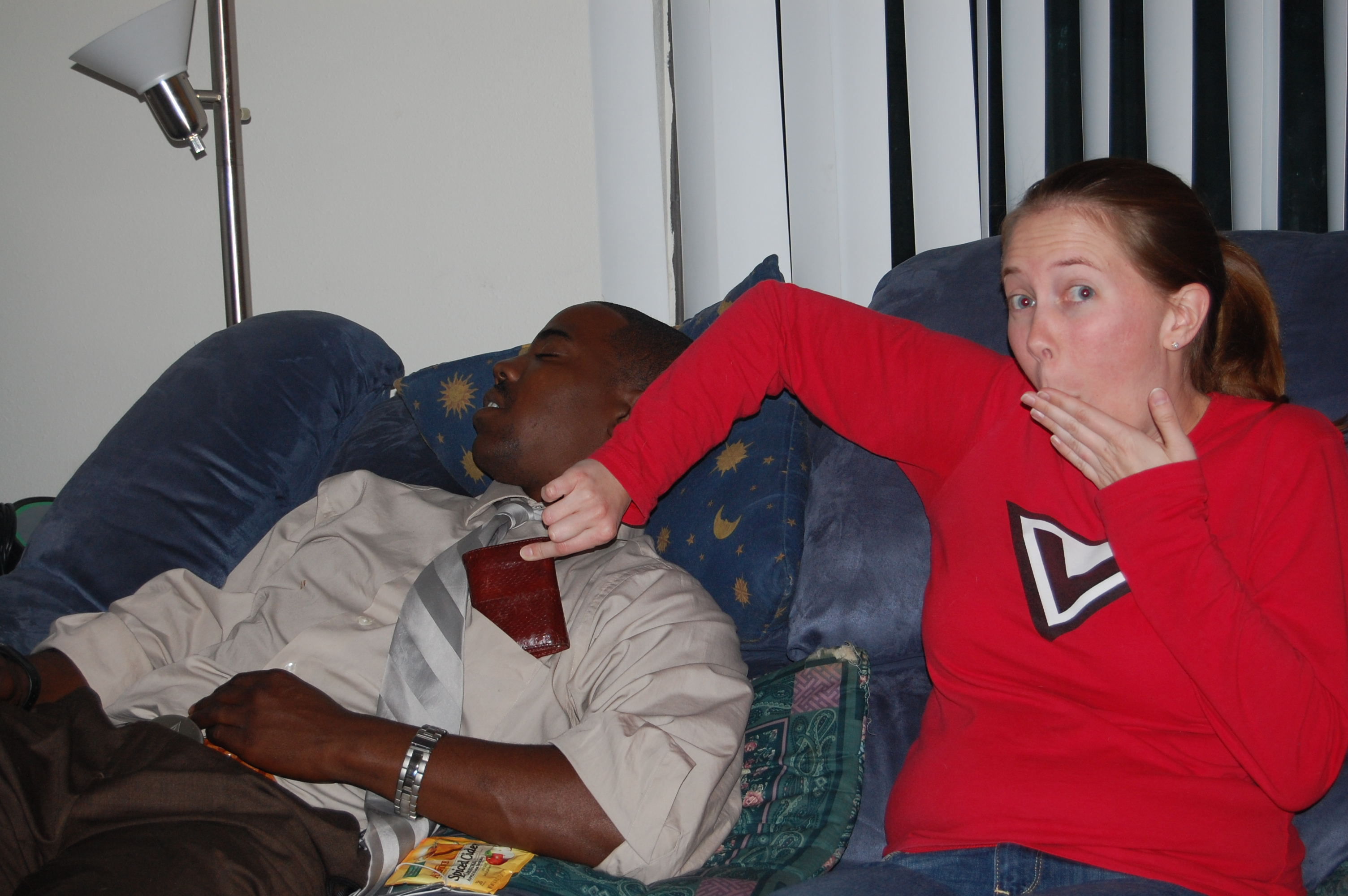 Girl pickpocking